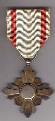 8th Class Order of the Iridescent Clouds